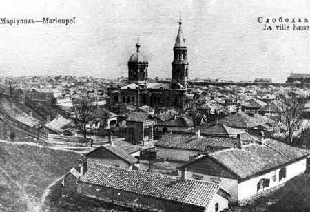 Mariupol old church